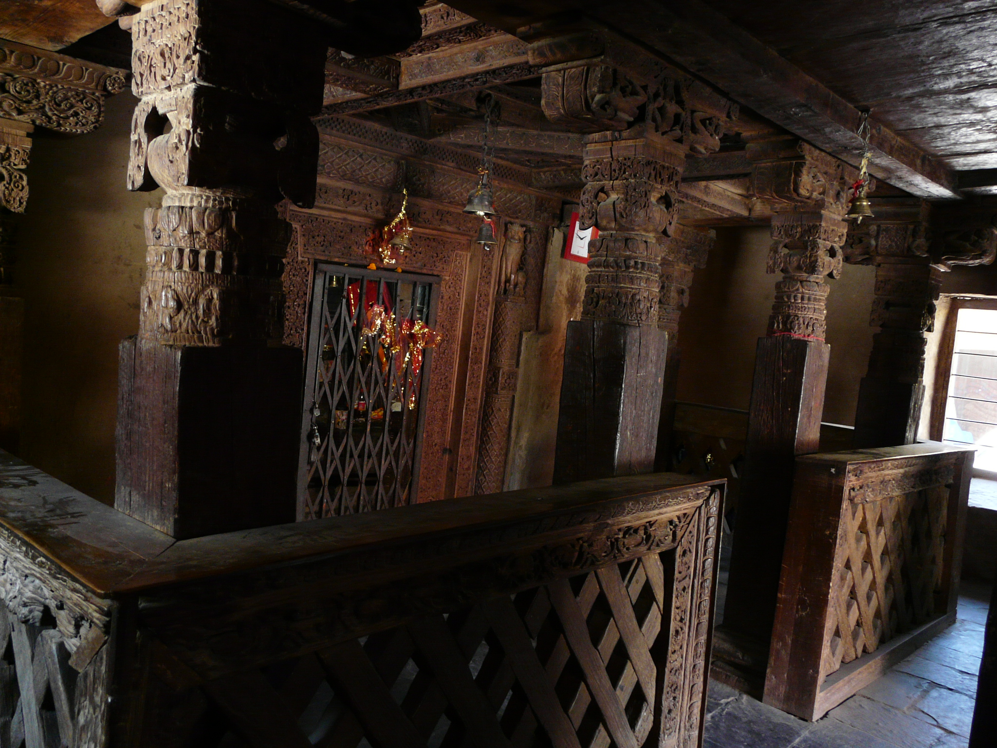 Lakshana Devi temple interior Lakshana Devi Temple, Bharmour, Himachal Pradesh, India